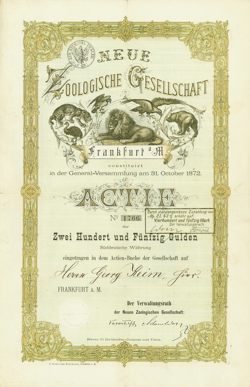 Share of the Neue Zoologische Gesellschaft, issued 31. October 1872